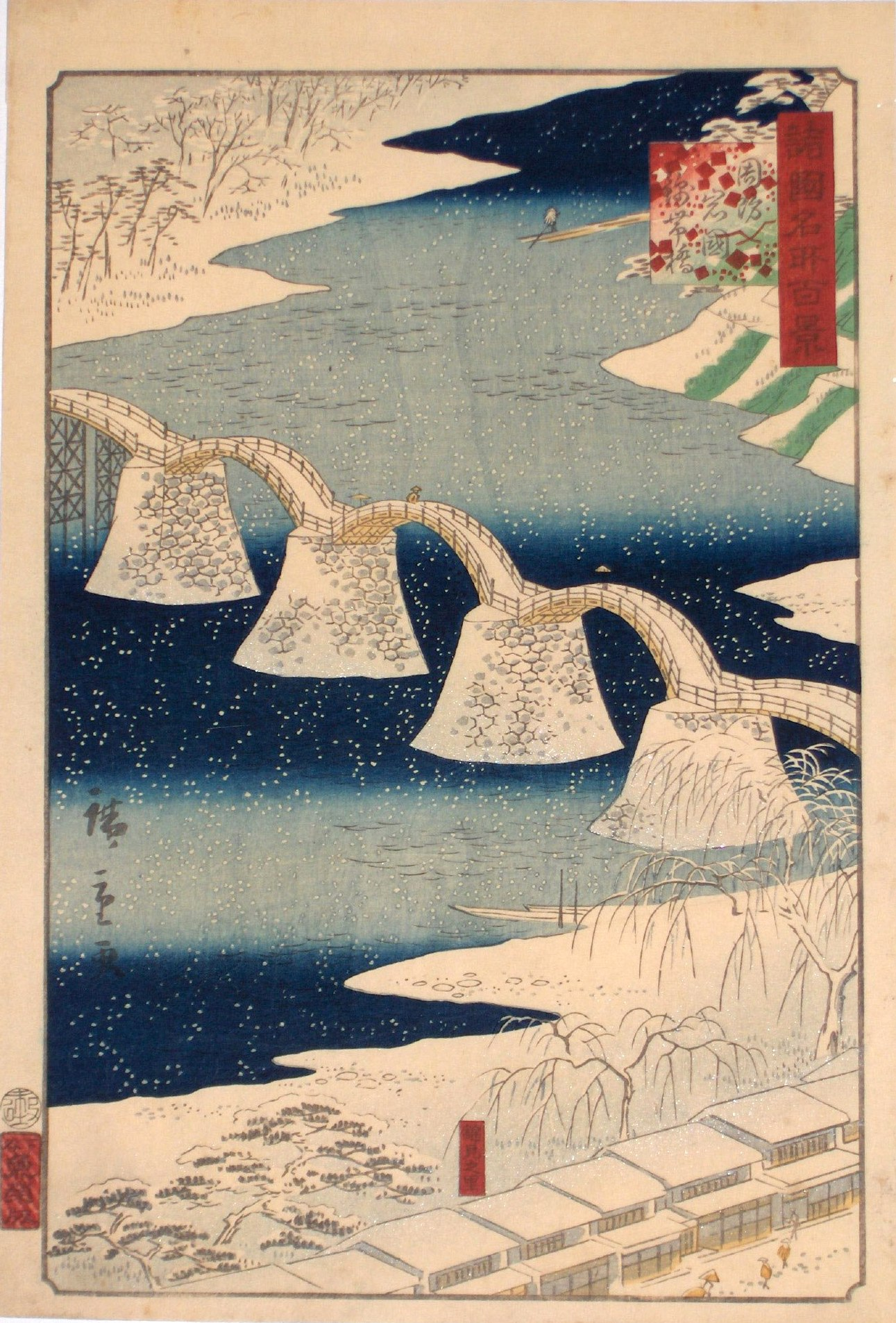 Suō Iwakuni Kintaikyō of 100 Views of the Provinces.